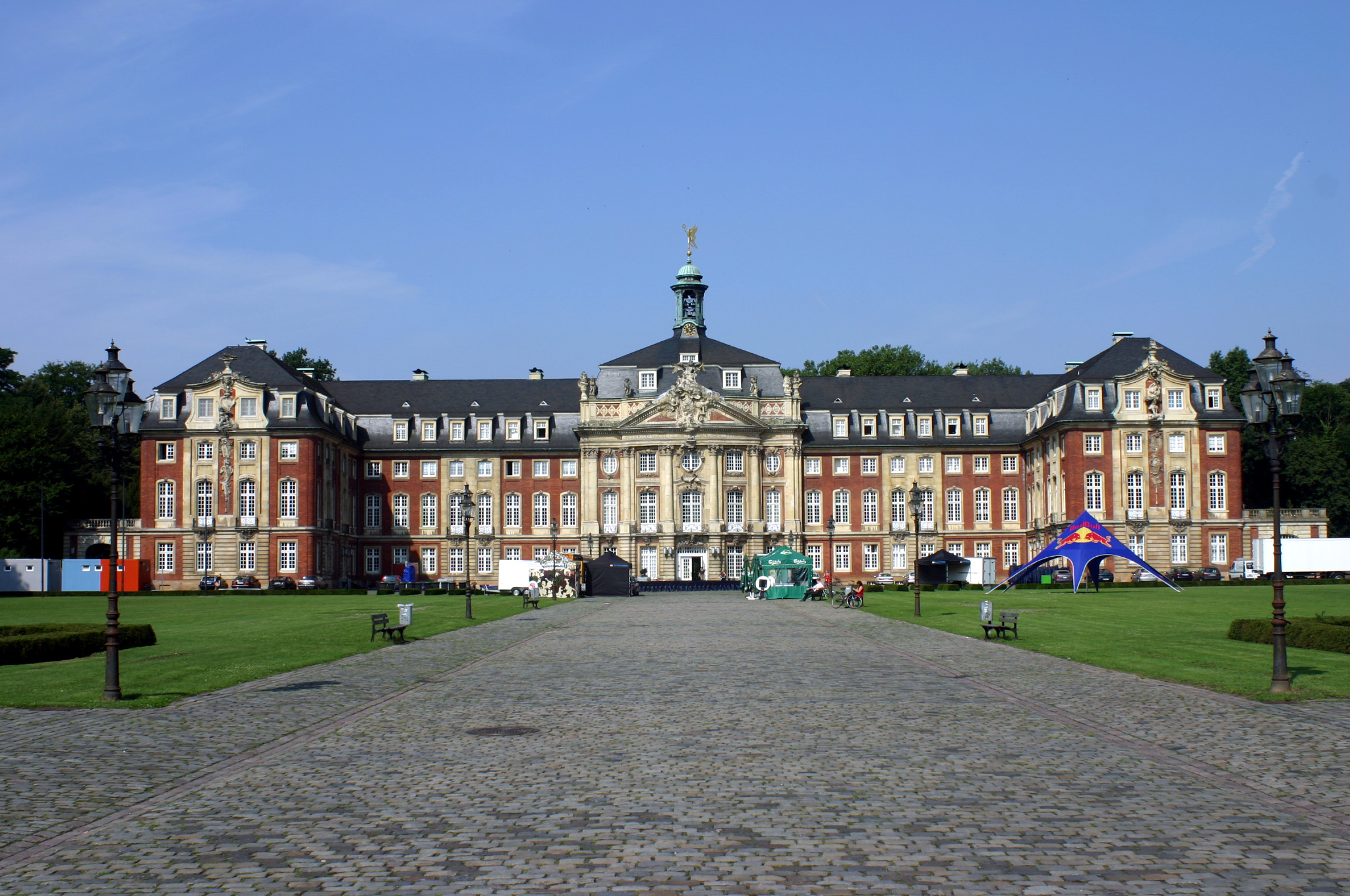 Münster CastleNorsk bokmål: Slottet i Münster, fyrstbiskopens tidligere residens